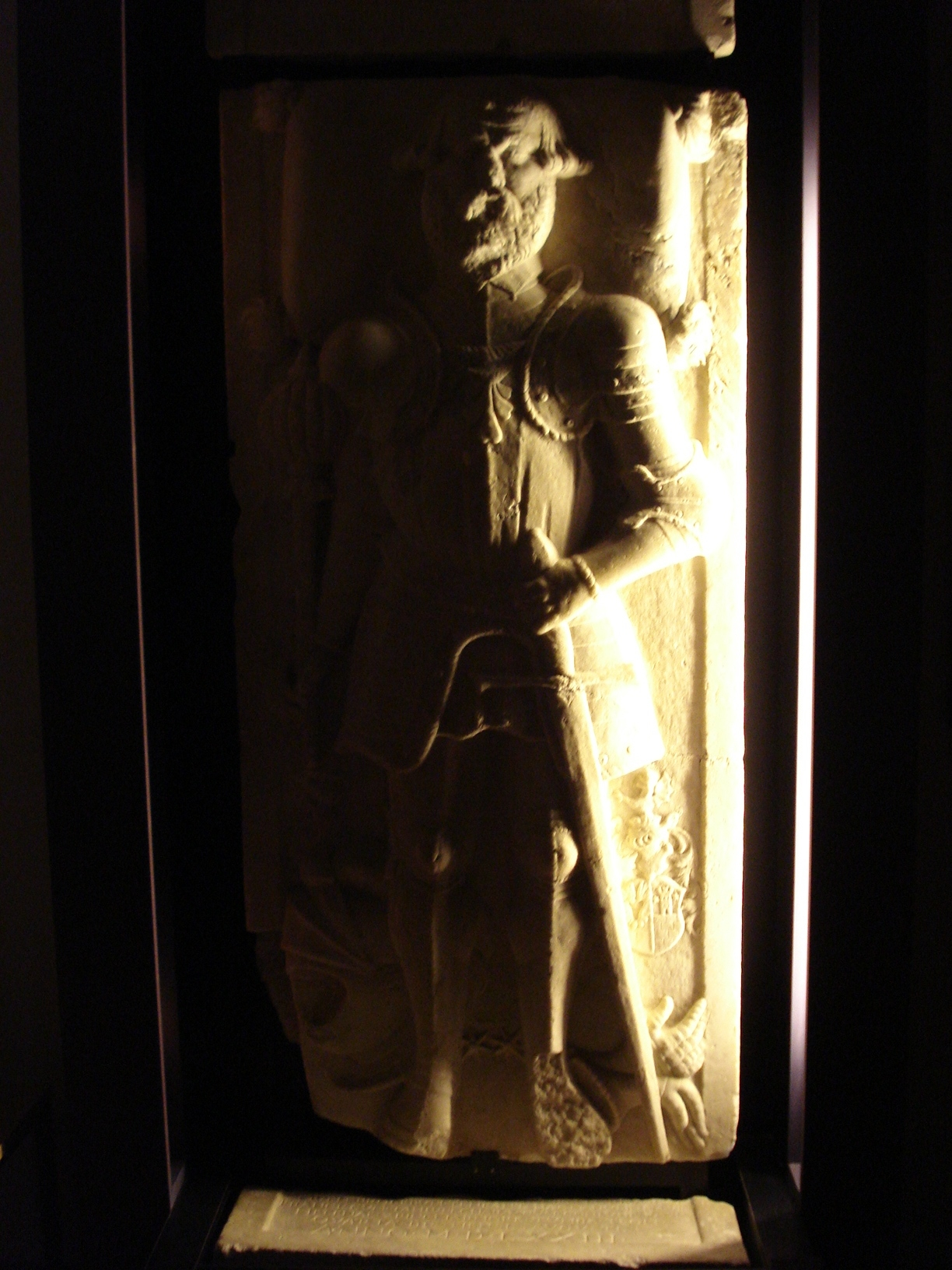 Franjo /Francis/ Tahy (1526-1573), Croatian baron - gravestone in Gornja Stubica